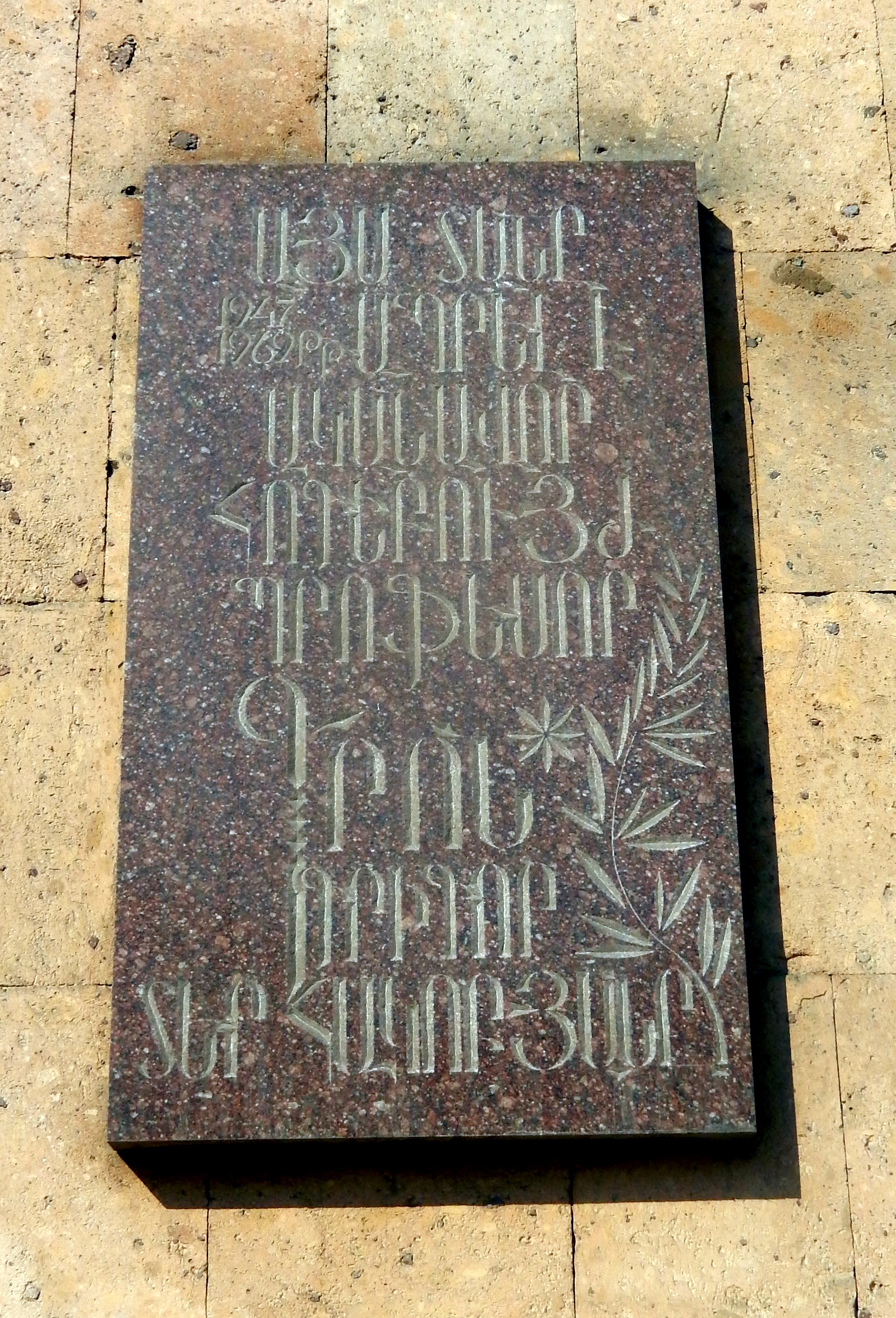 Grigor Ter-Hakobyan's plaque on Nalbandyan street Yerevan